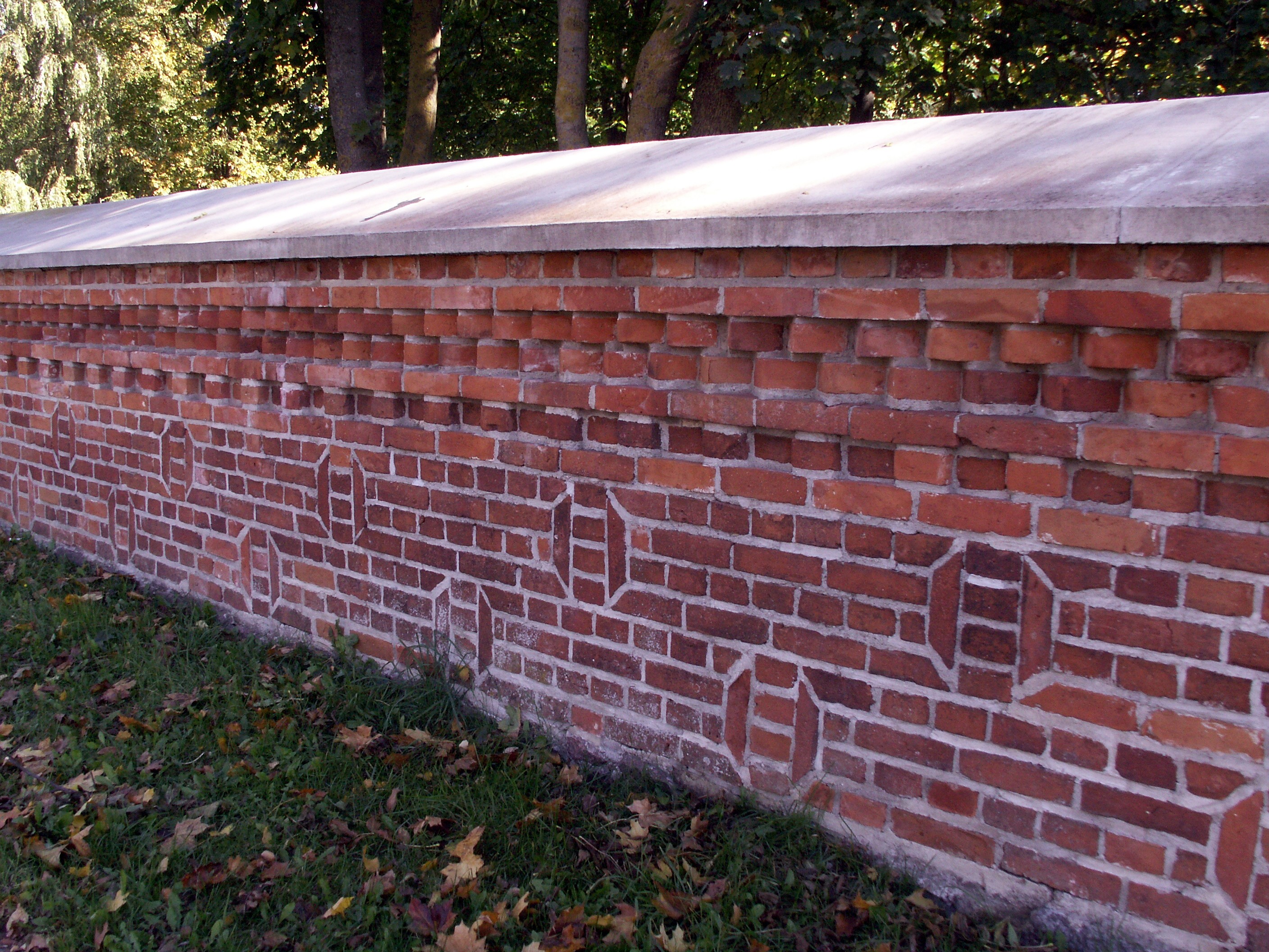 Kretinga manor, Lithuania